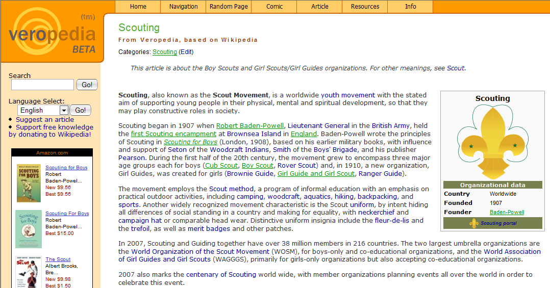 Screenshot in Firefox of